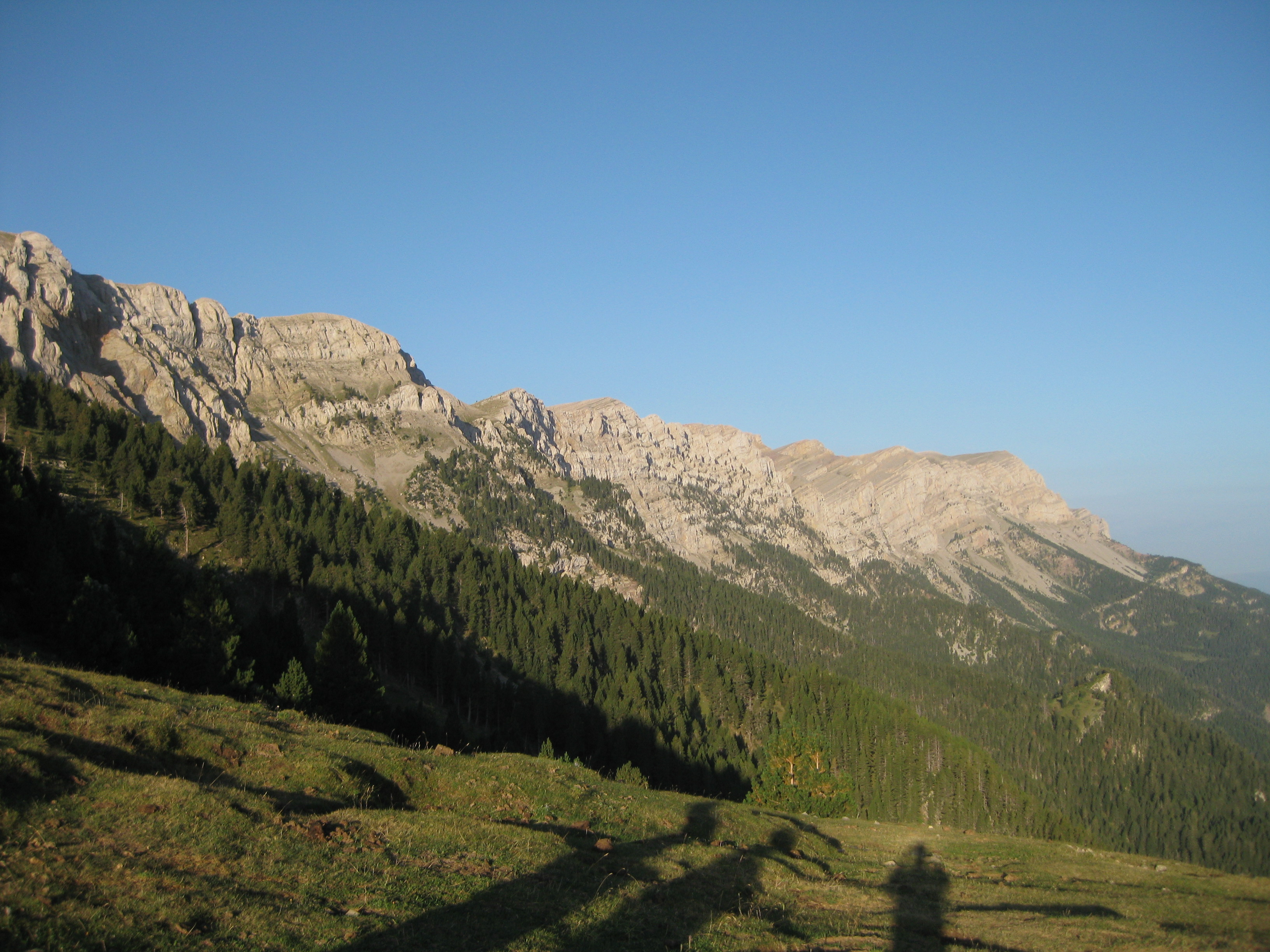 Cadí mountain rage